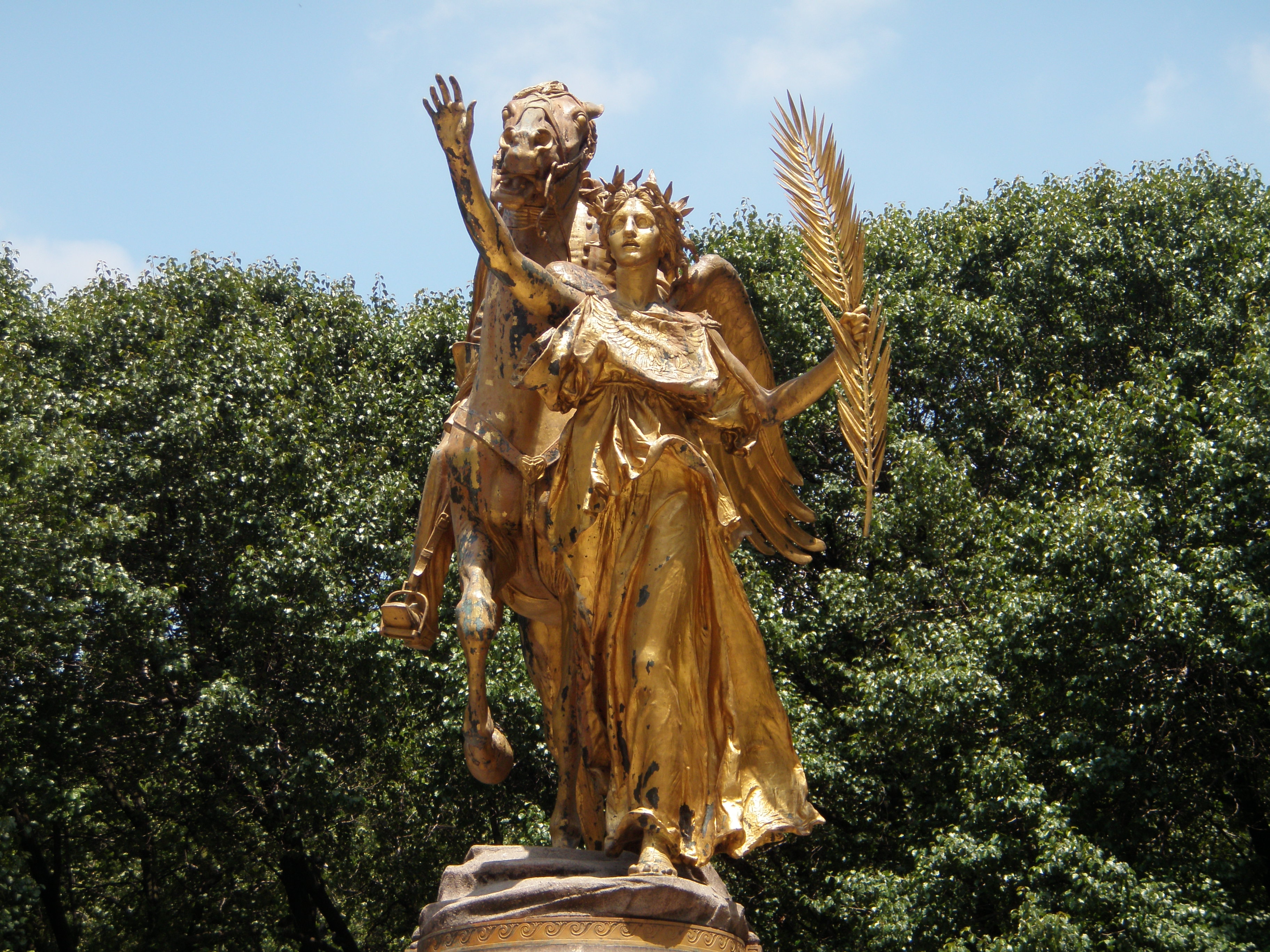 Statue in Grand Army plaza at the southeast corner of Central Park. It is located by The Plaza Hotel. It is very pretty. It was taken in the summer of 2009.